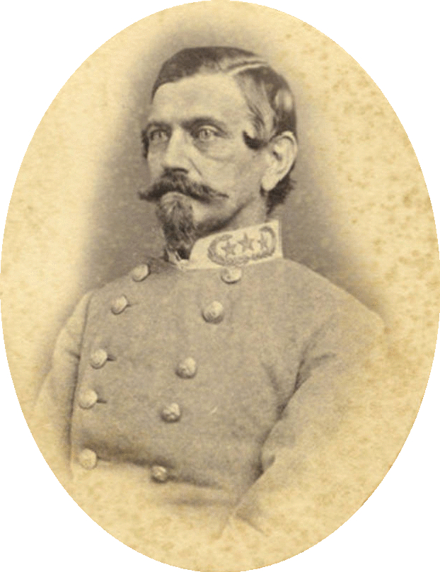 Brig. Gen. James Cantey, CSA, Collections of the Alabama Department of Archives and History